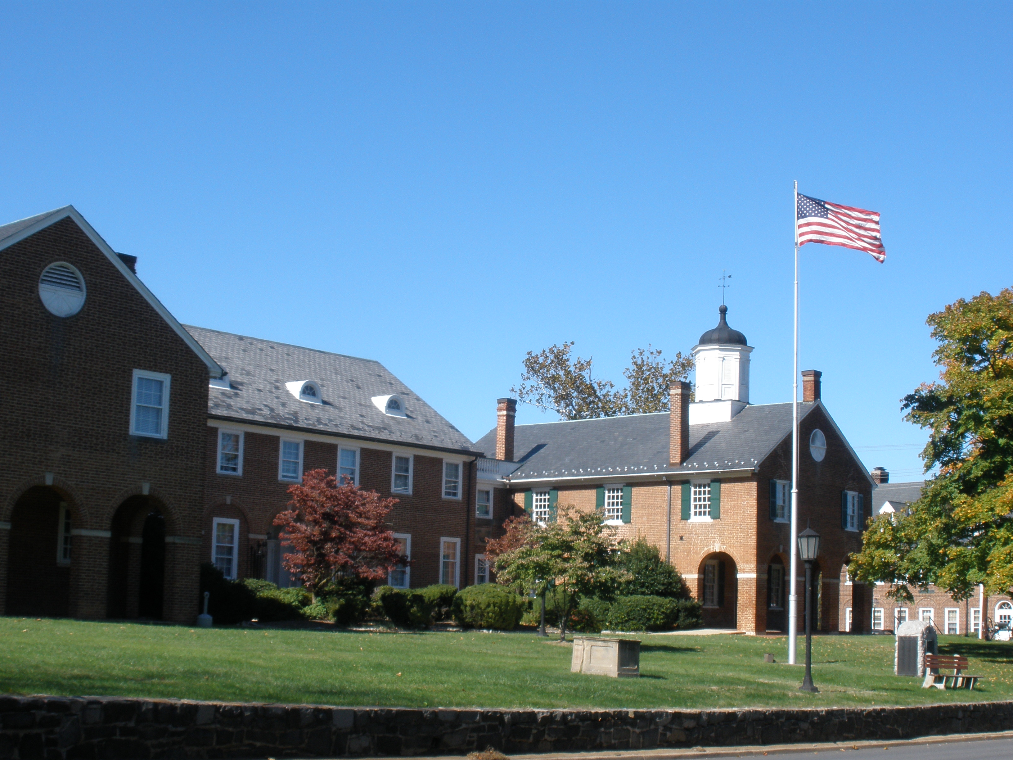 Fairfax County Courthouse